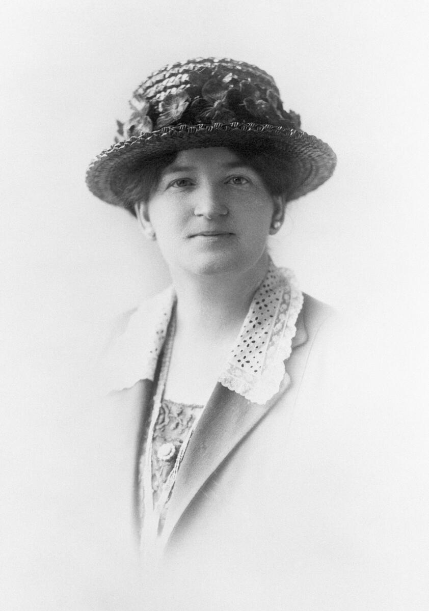 Nellie McClung, Canadian feminist